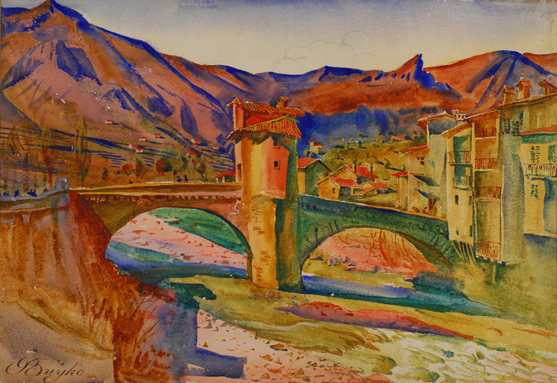 View of an italian town